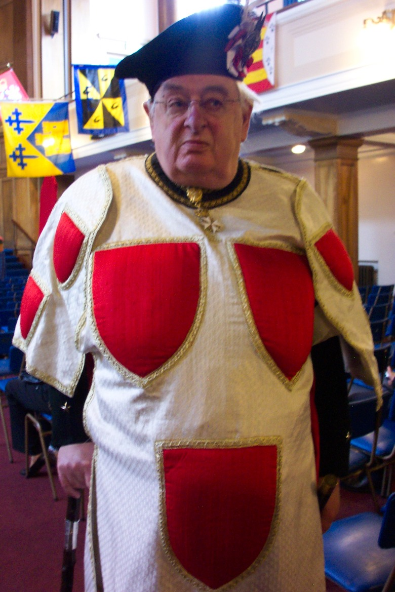 This is an image of Slains Pursuivant, Peter Drummond-Murray of Mastrick, taken at the XXVIIth International Congress of Genealogical and Heraldic Sciences in St Andrews Scotland. The photograph was taken by Jo Appleton of Appleton Studios.